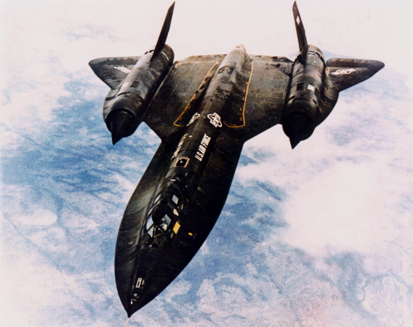 A U.S. Air Force Lockheed SR-71A Blackbird (s/n 61-7968) in flight.